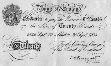 Observe side of twenty-pound sterling banknote